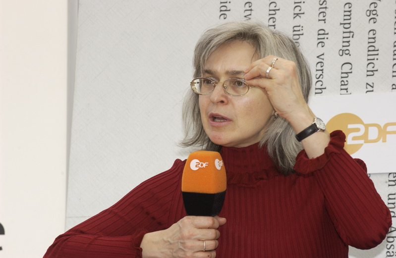 Anna Politkovskaya in the "blue Sofa" at the presentation of her book Putin's Russia during the 2005 Leipzig Book Fair